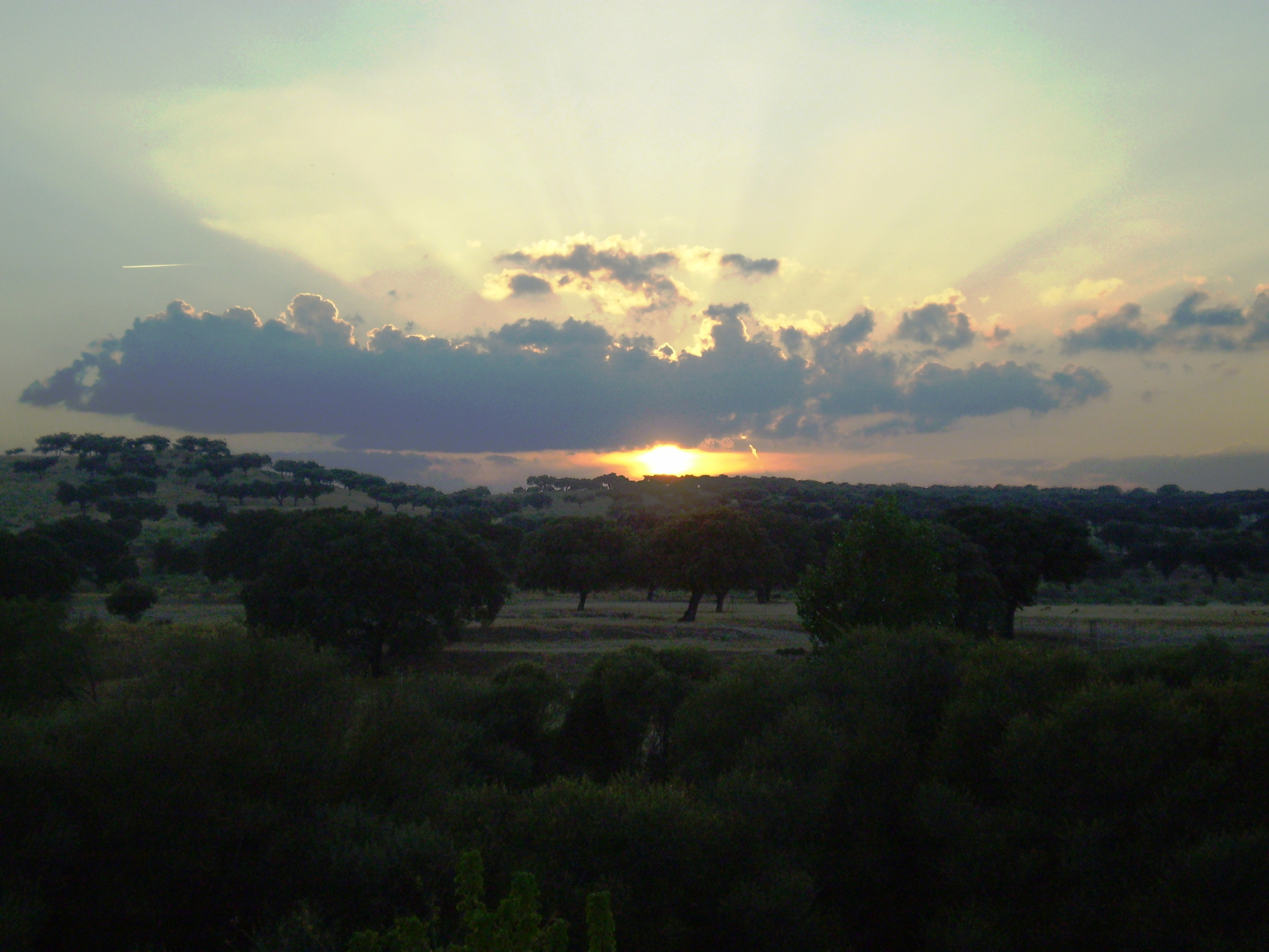 Monte de El Pardo. Community of Madrid, Spain.